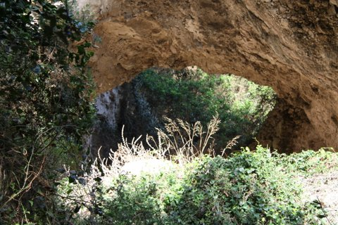 Grotta di Matermania - Paesaggio